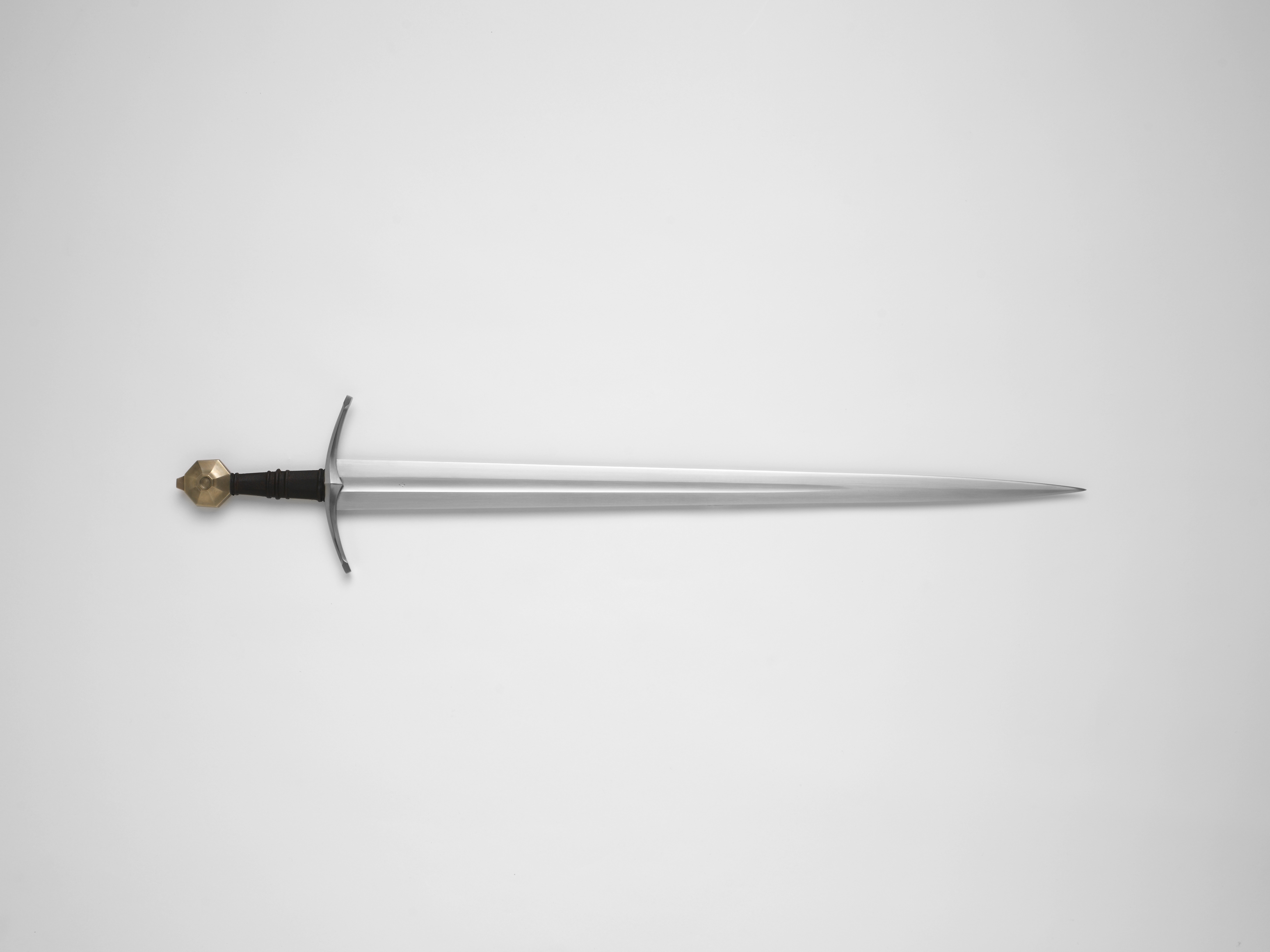 Albion_Prince_Medieval_Sword_7